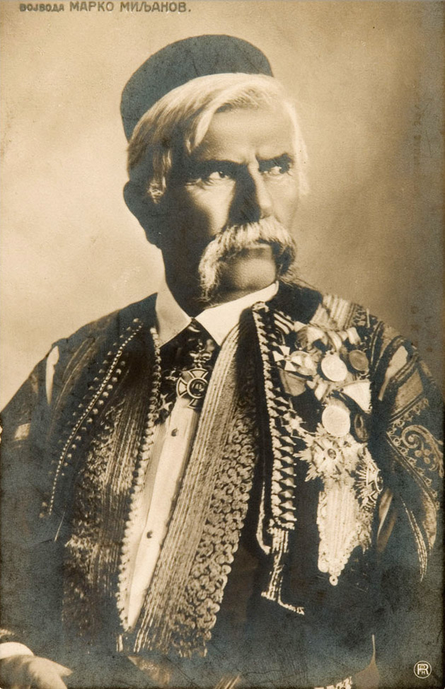 Vojvoda Marko Miljanov. Postcard published by Издање С. Б. Цвијановића in ca. 1910. Photograph taken before 1901. COBISS.SR-ID: 128309255.